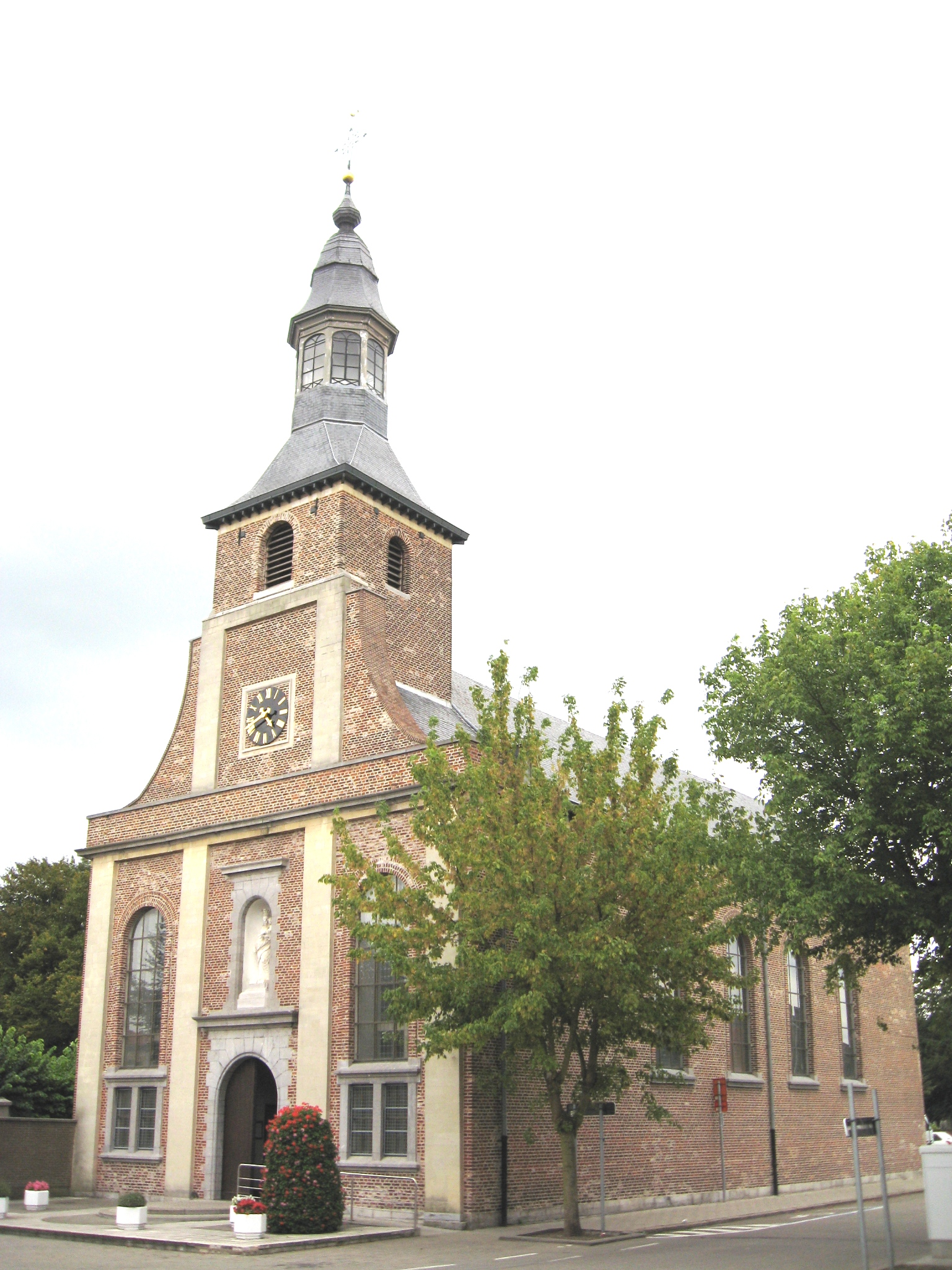 Church of Saint James in Sint-Truiden (Schurhoven), Limburg, Belgium